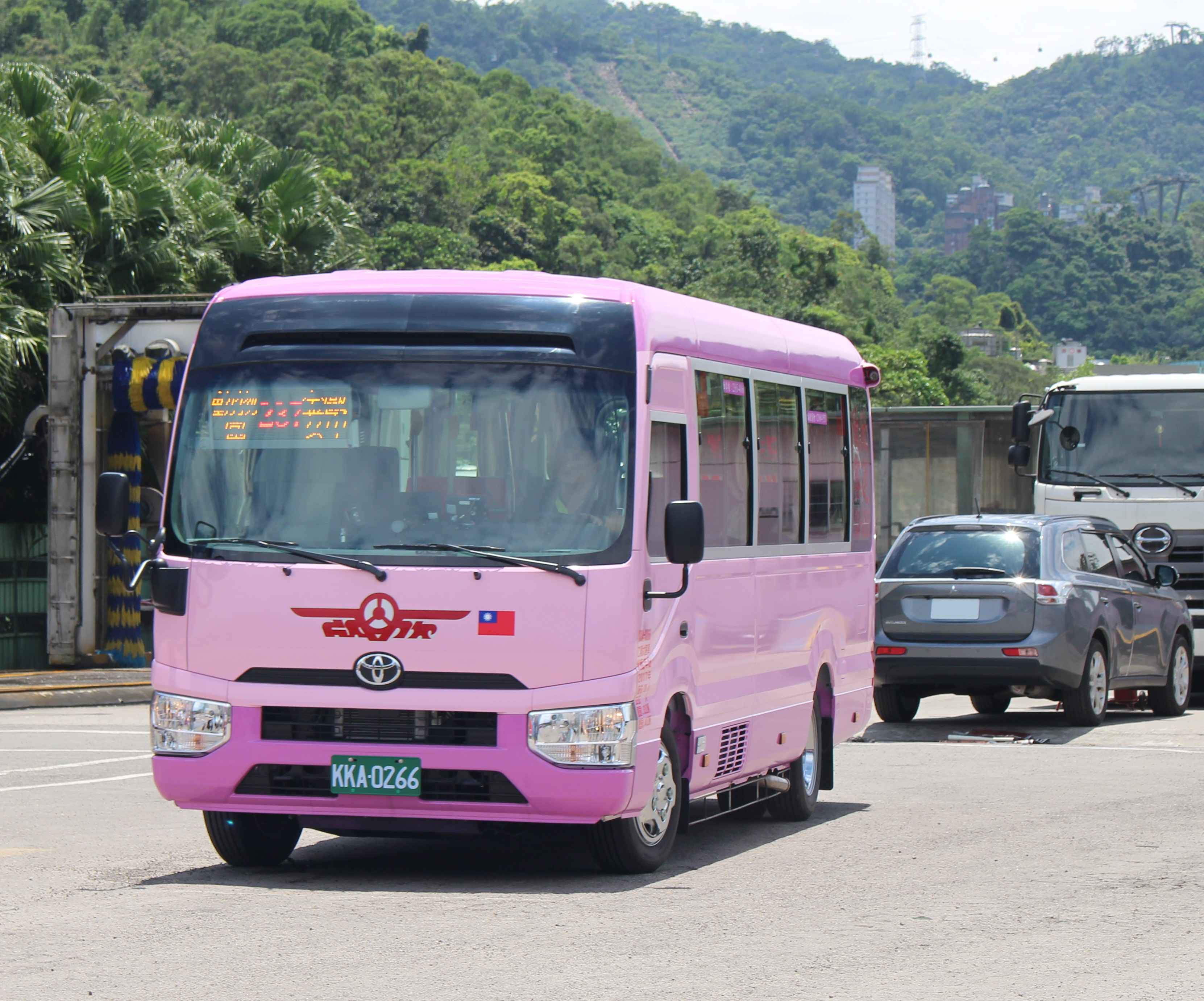 Toyota Coaster XZB70L KKA-0266 of Shin-Shin Bus 中文（台灣）: 欣欣客運豐田Coaster XZB70L中型巴士KKA-0266